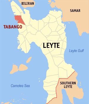 Map of Leyte showing the location of Tabango